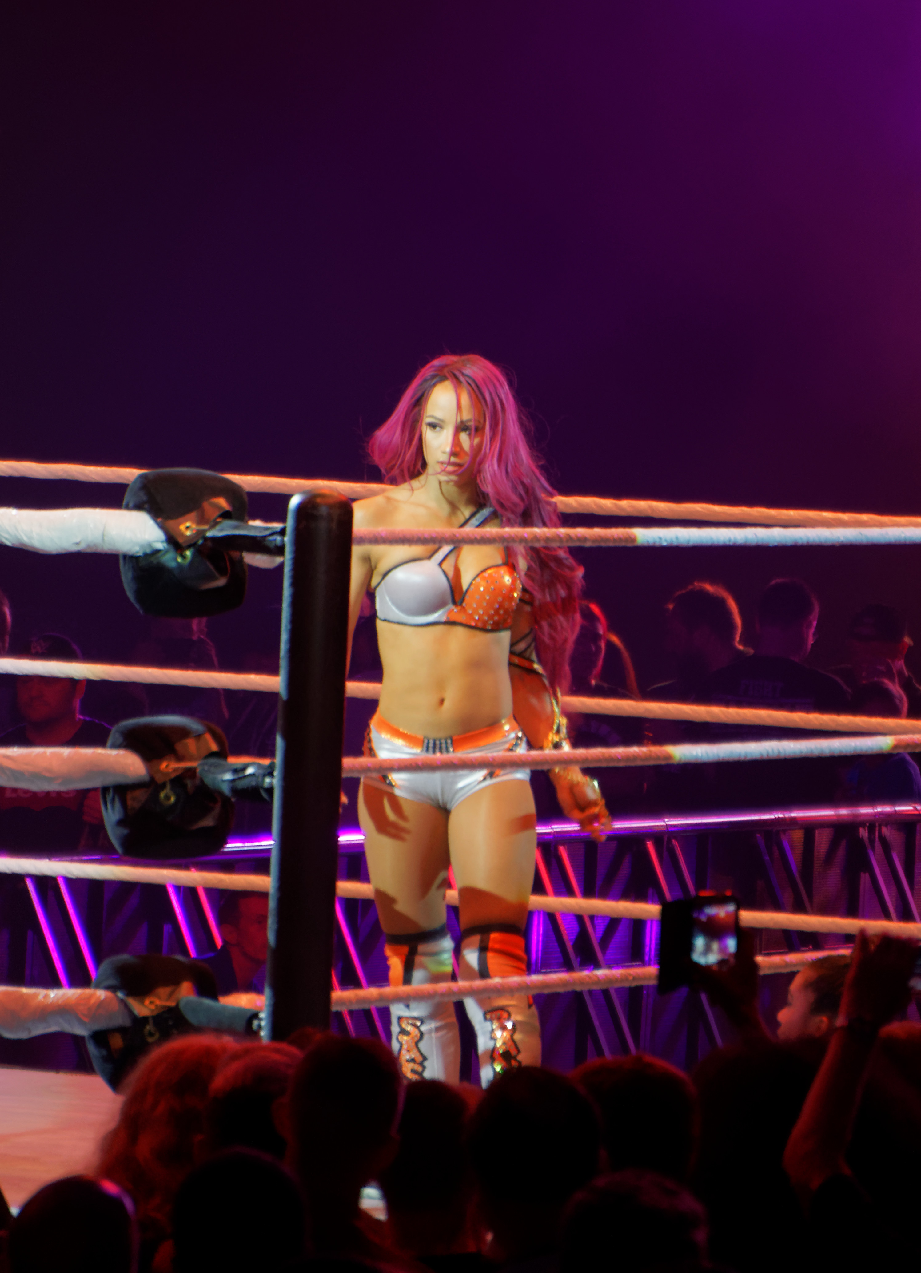 WWE Live returns to London this September Join Roman Reigns, Seth Rollins and more WWE Superstars at the 02 Arena for a one-night-only WWE Live in London on Wednesday, 7 Sept. Charlotte (c) def. (pin) Sasha Banks For : WWE Raw Women's Title